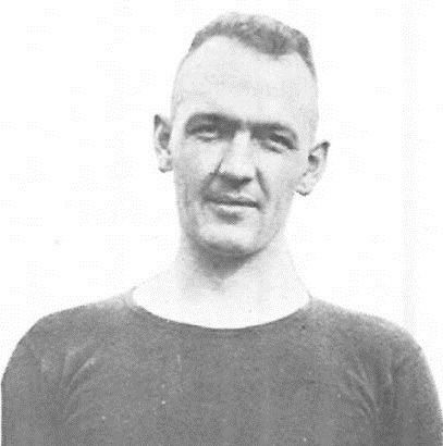 University of Washington football coach Leonard "Stub" Allison